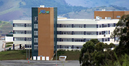 1famed